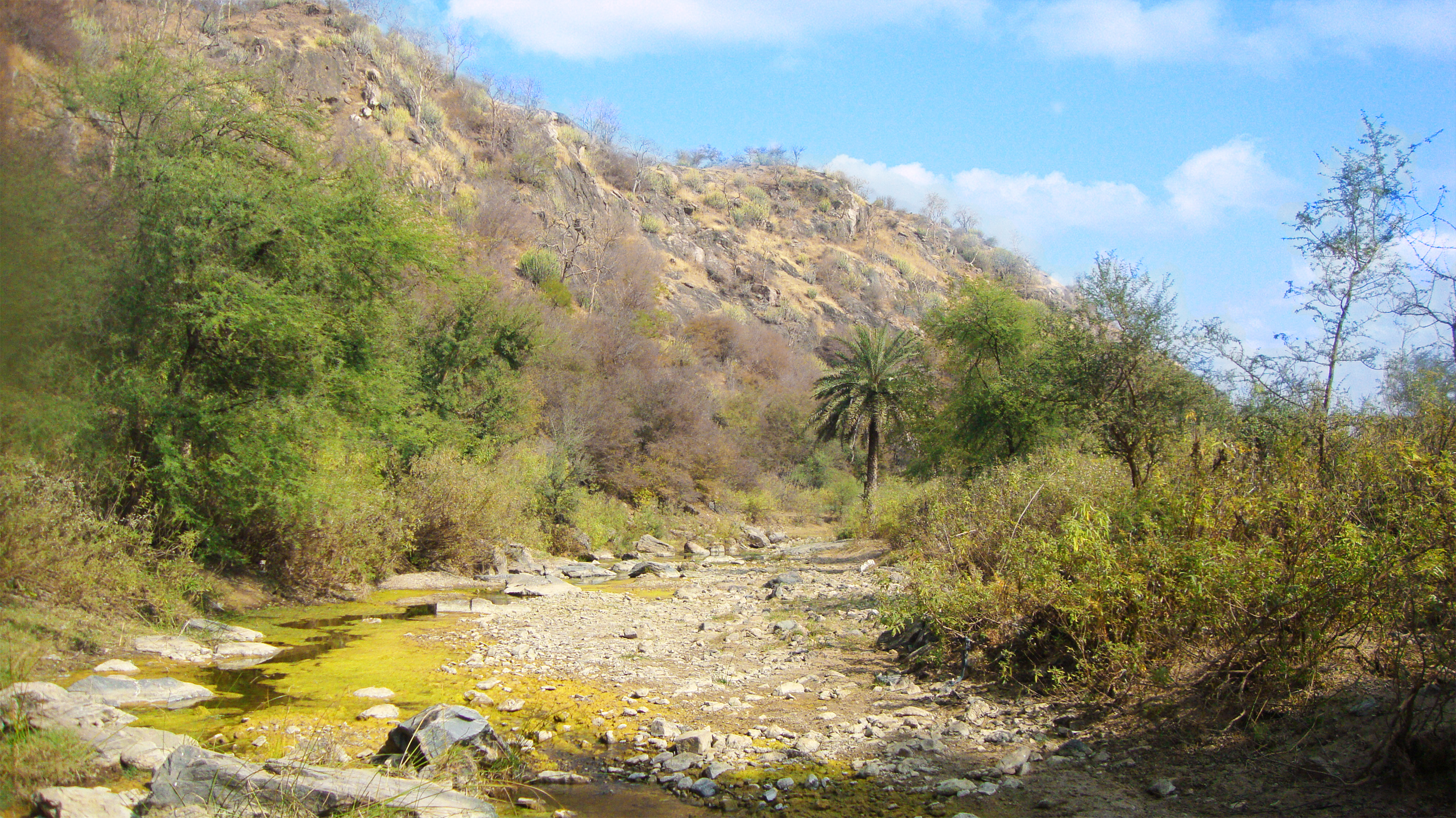 A generic inside view of Todgarh Rawali Sanctuary depicting mountain and yellow fungus in the end of autumn season.